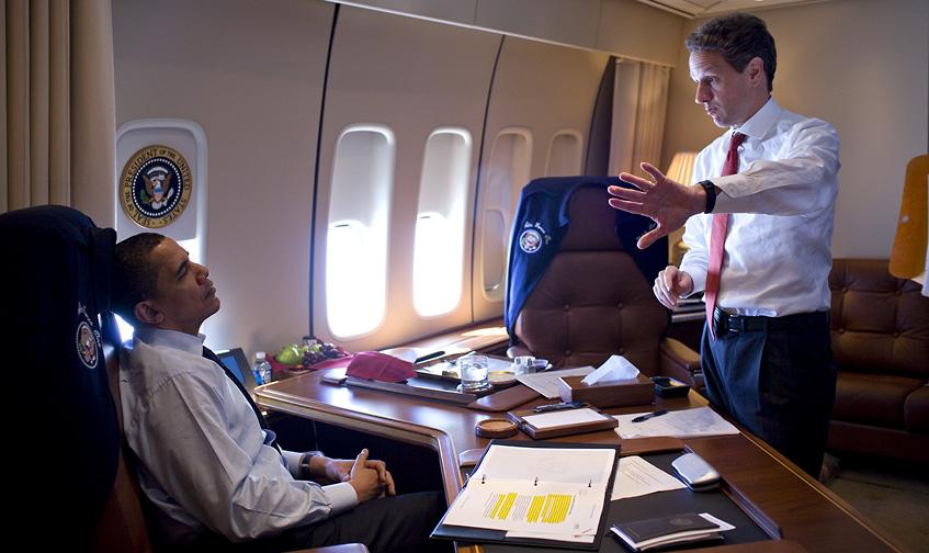 President Barack Obama meets with U.S. Treasury Secretary Timothy Geithner aboard Air Force One March 31, 2009, on their way to attend the G-20 Summit in London.